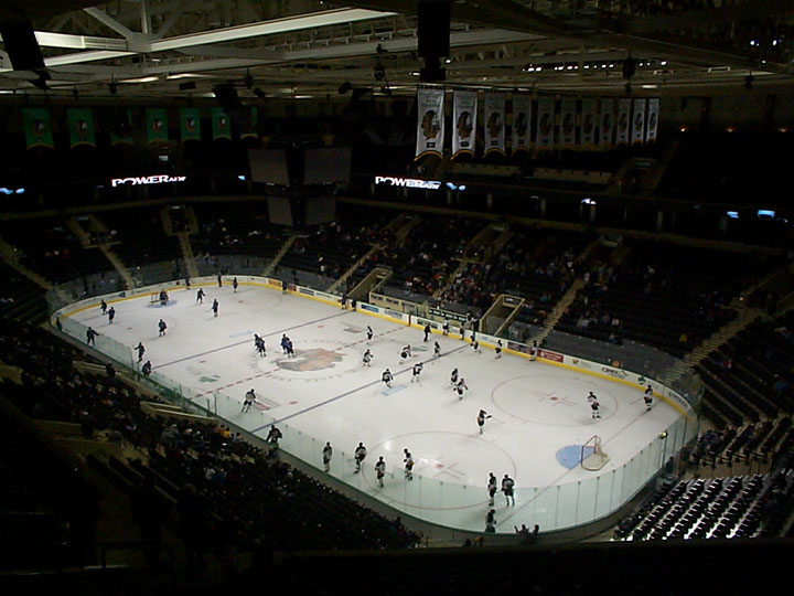 Interior of Ralph Englested Arena during a hockey game. The arena is located in Grand Forks, North Dakota.